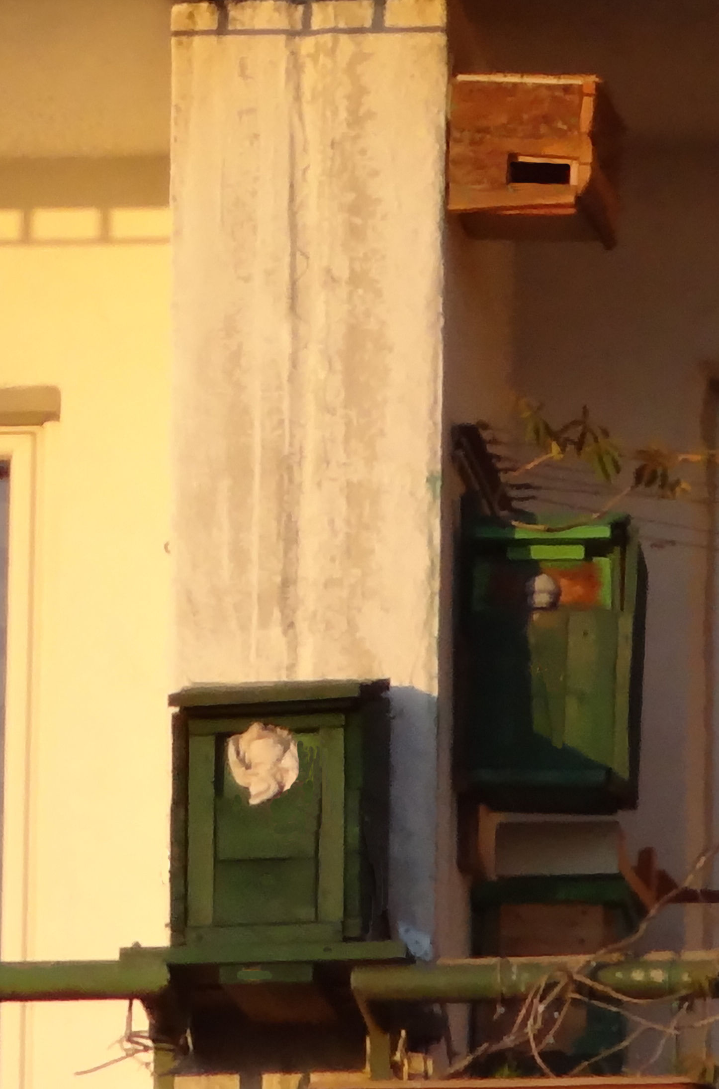 nest boxes